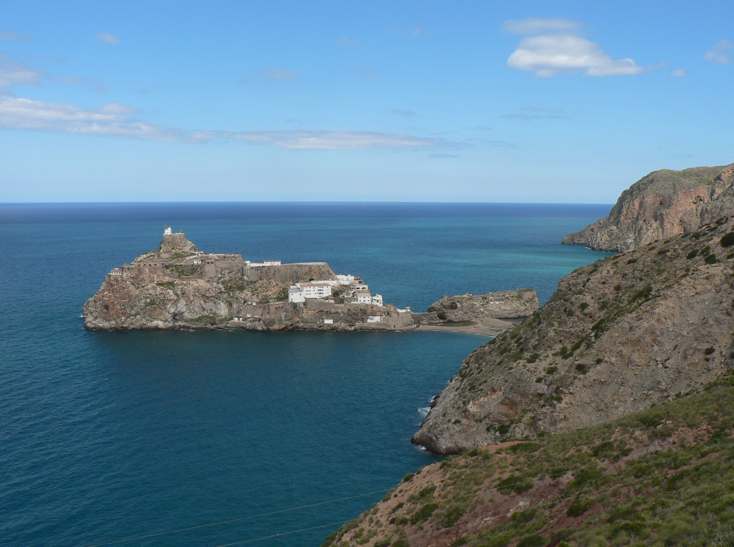 Spanish Fortress on moroccan coast.